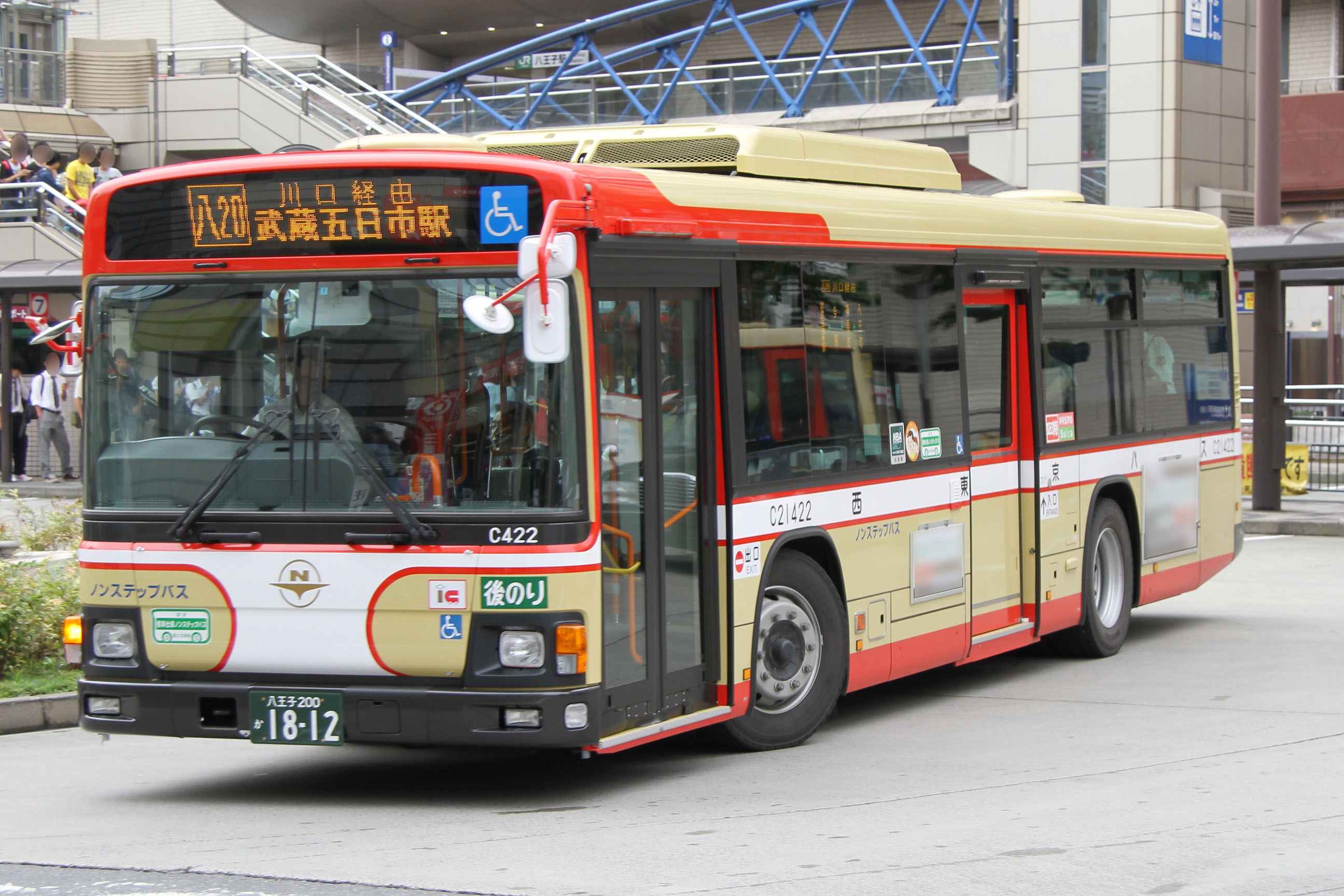 Nishi Tokyo Bus car 西東京バスの車両